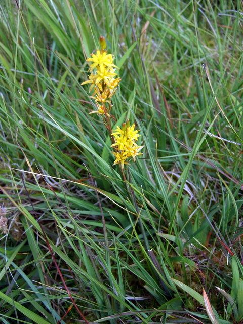 Bog asphodel (Narthecium ossifragum) This yellow-starred flower is a member of the lily family and grows in acid peat bogs such as here on Carningli Common. It turns bright orange as it fruits and was once used as a colourant, like saffron, and as a hair dye. Its specific name 'ossifragum' means bone-breaking in accord with the tradition that it caused brittle bones in grazing animals. This is dismissed as an old wives' tale, the animals' poor health being more likely attributable to the lack of calcium in the acid land. But as always, the old wives were not so wrong: ingestion of Bog Asphodel has now been shown to cause kidney disease in cattle and photosensitivity in lambs.